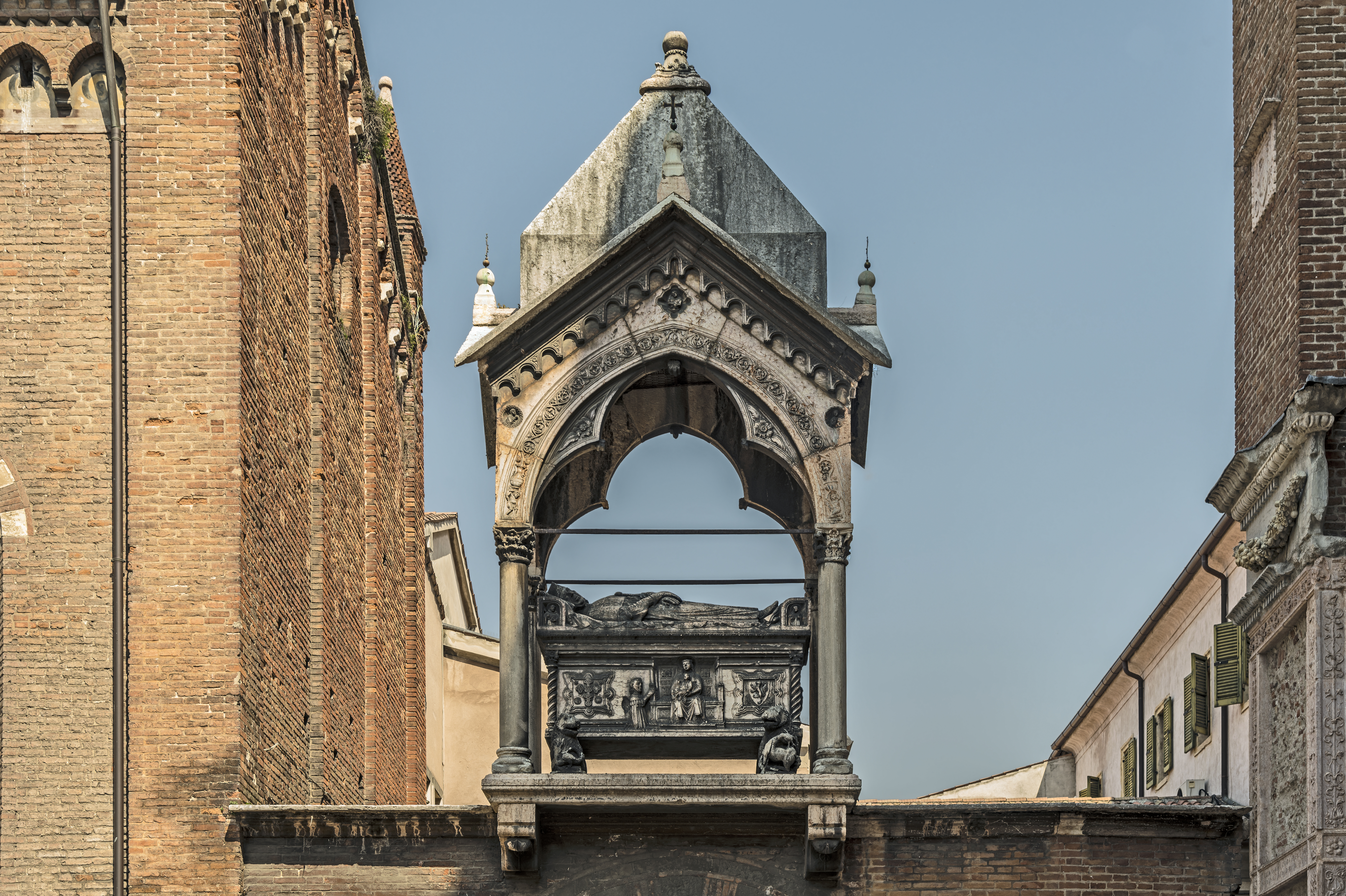 Tomb of Guglielmo da Castelbarco in Verona, Piazza Sant'Anastasia